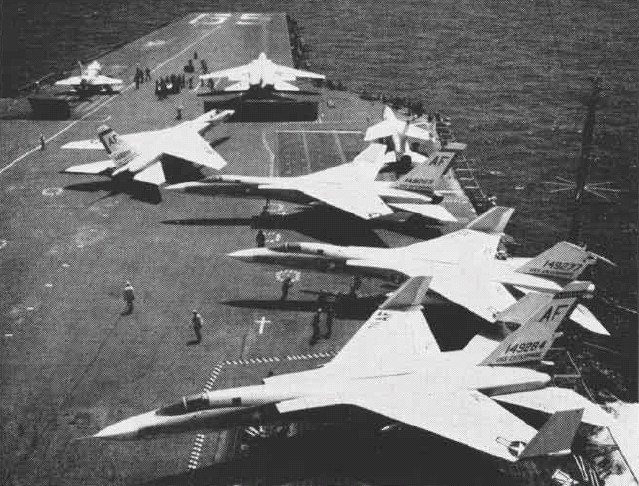 Five North American A3J-1 Vigilante bombers of heavy attack squadron VAH-7 Peacemakers of the Fleet, Carrier Air Group 6 (CVG-6), on the U.S. aircraft carrier USS Enterprise (CVAN-65) in 1962.